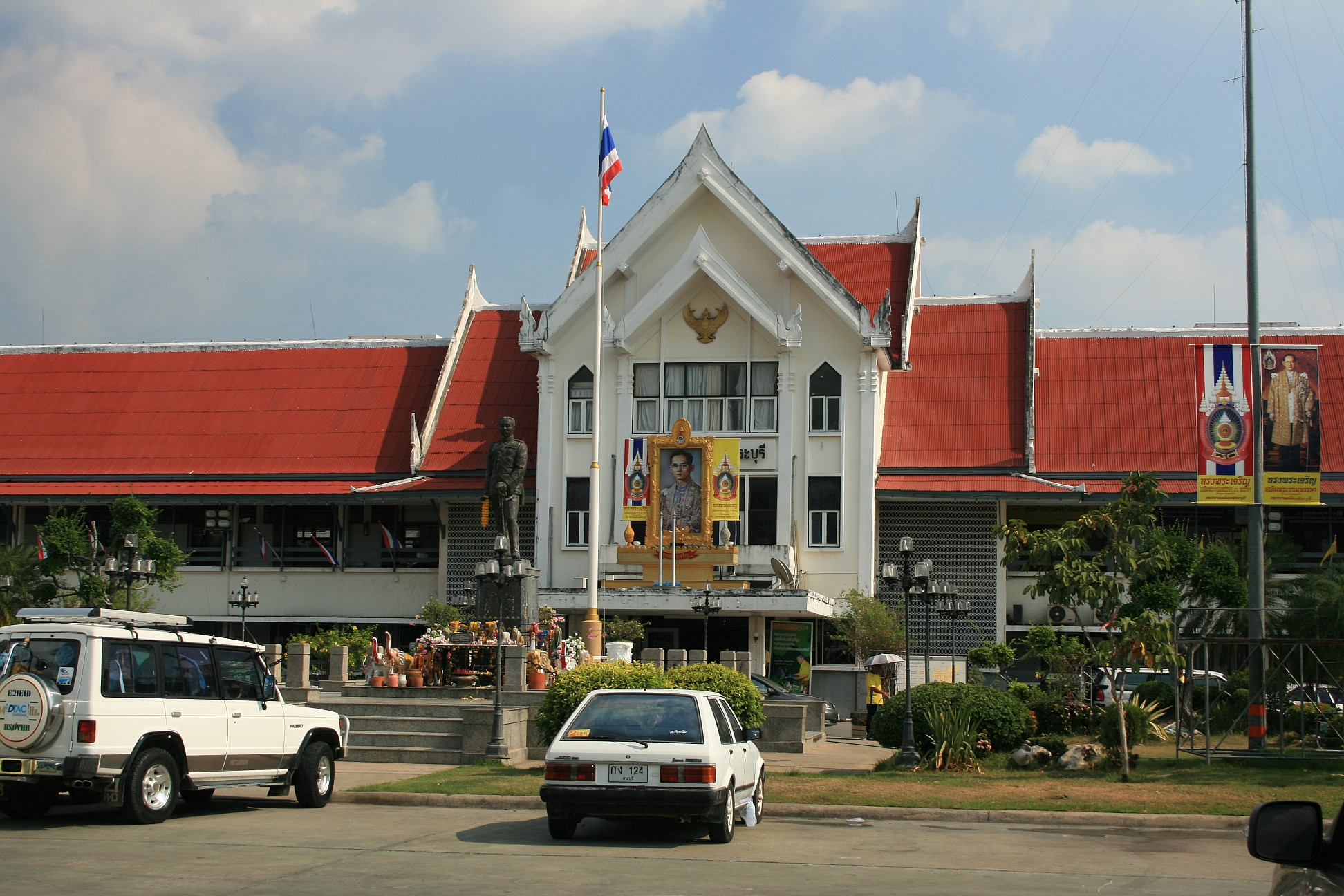 Provincial hall of Saraburi, Thailand